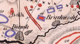 Prehistoric tombs near Dörmte and Bruchwedel